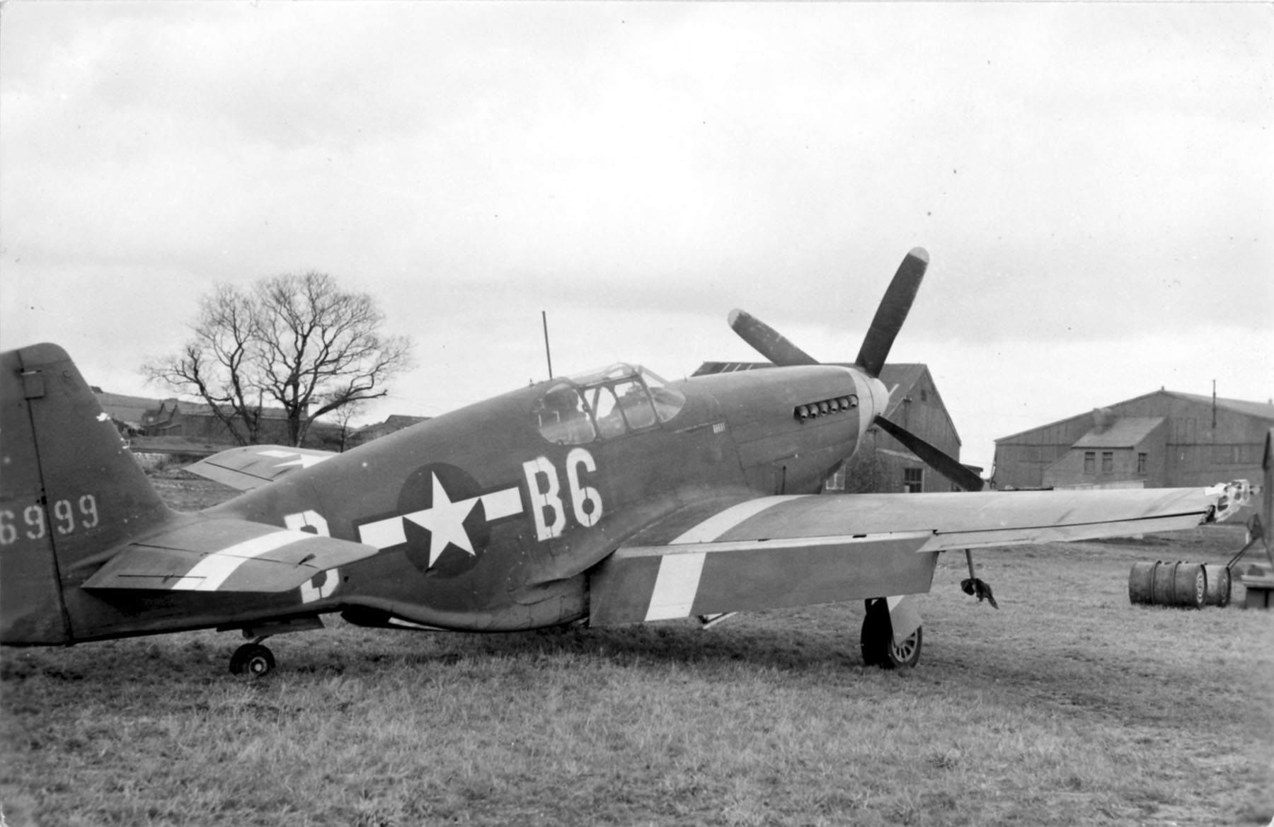 North American P-51B